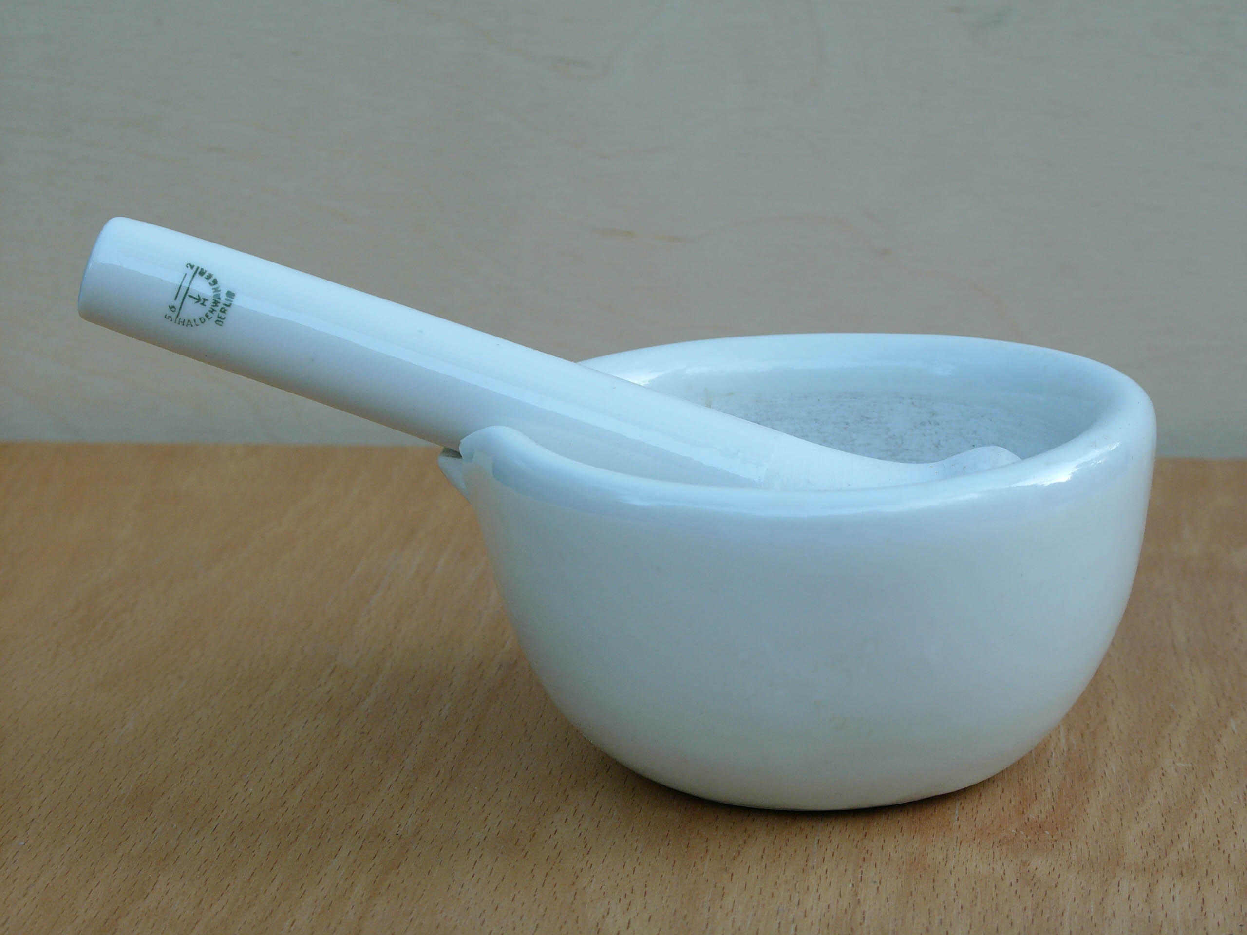 Mortar made out of porcelain